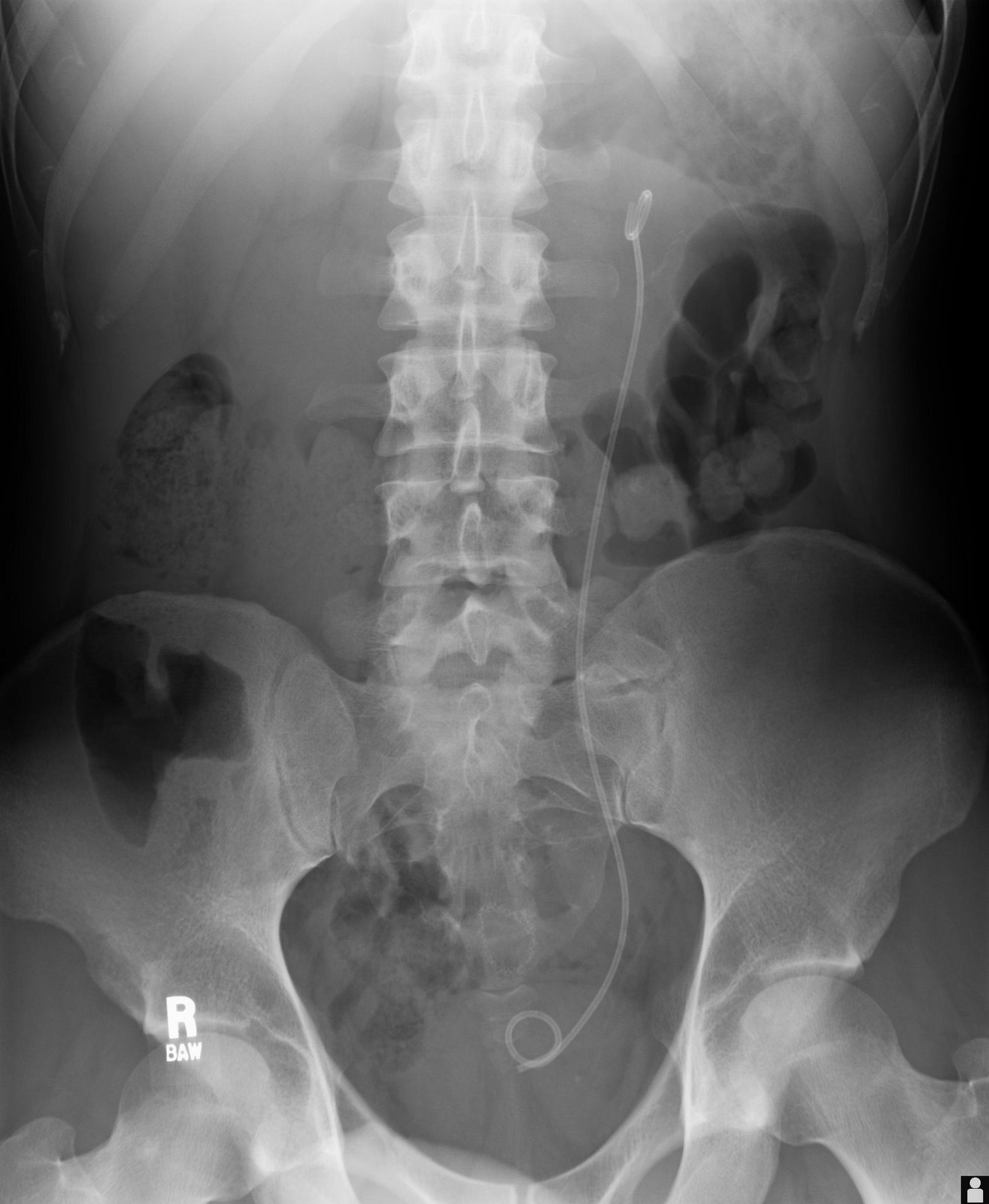 Abdominal X-Ray showing uretal stent placement on left side of body (placed in order to alleviate hydronephrosis of the left kidney caused by a tumor blocking the left ureter to the bladder)